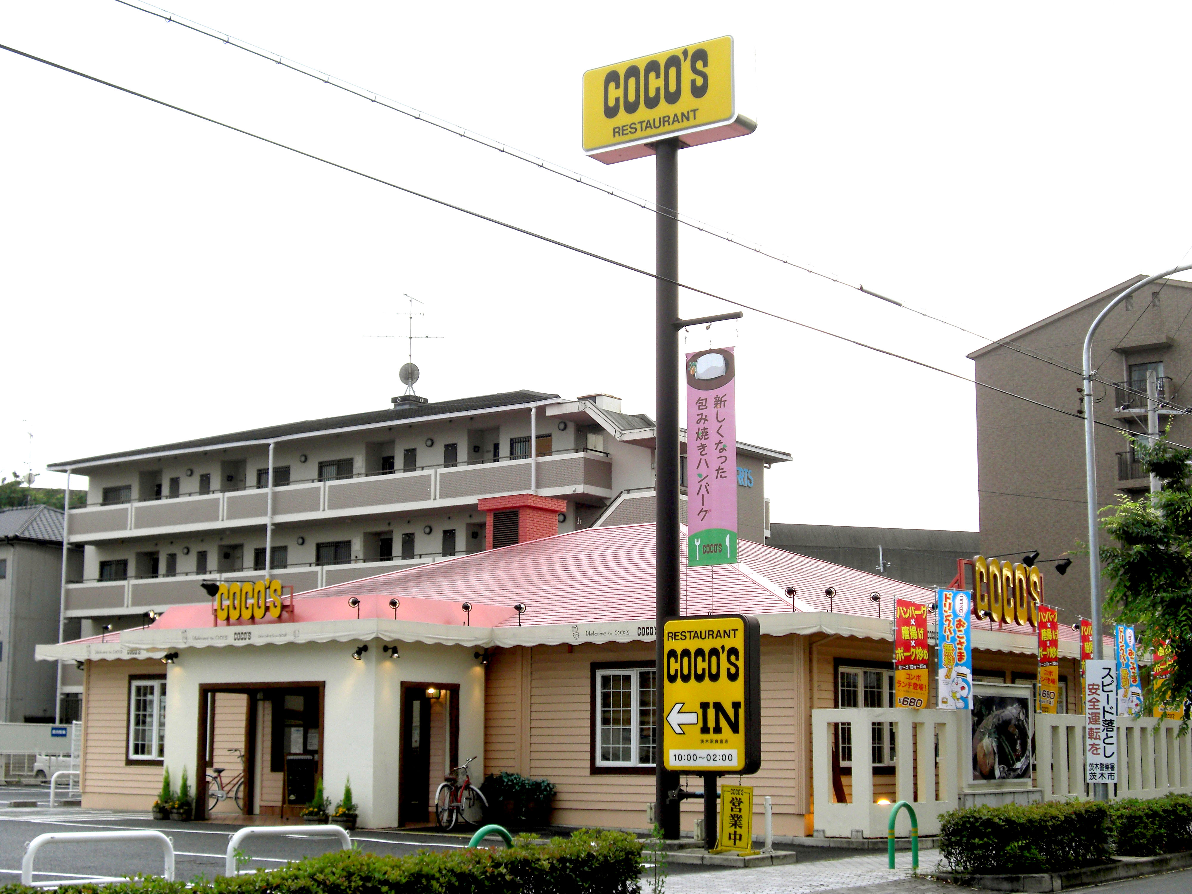 COCO'S Ibaraki Sawaragi,Sawaragihigashimachi Ibaraki-City Osaka Japan.